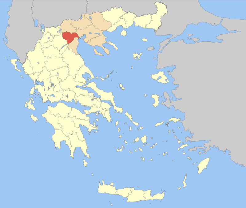 Locator map of Imathia prefecture (Νομός Ημαθίας) in Greece